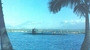 639 sailing into Pearl Harbor, Hawaii